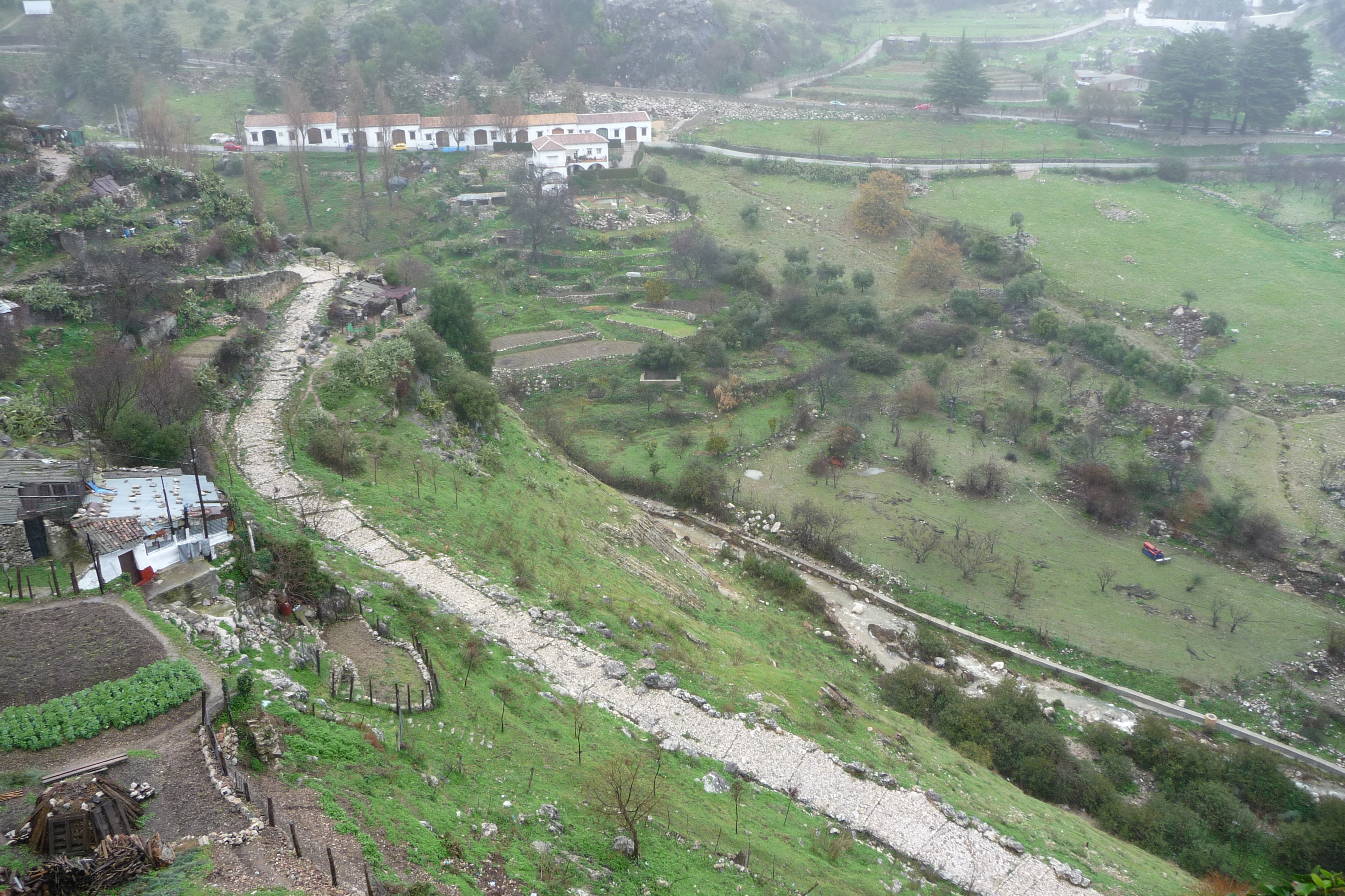 Guadalete river near Grazalema. Andalusia (Spain)